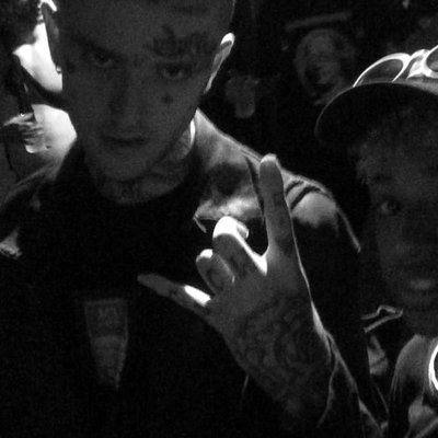 wavysavage++ and lil peep